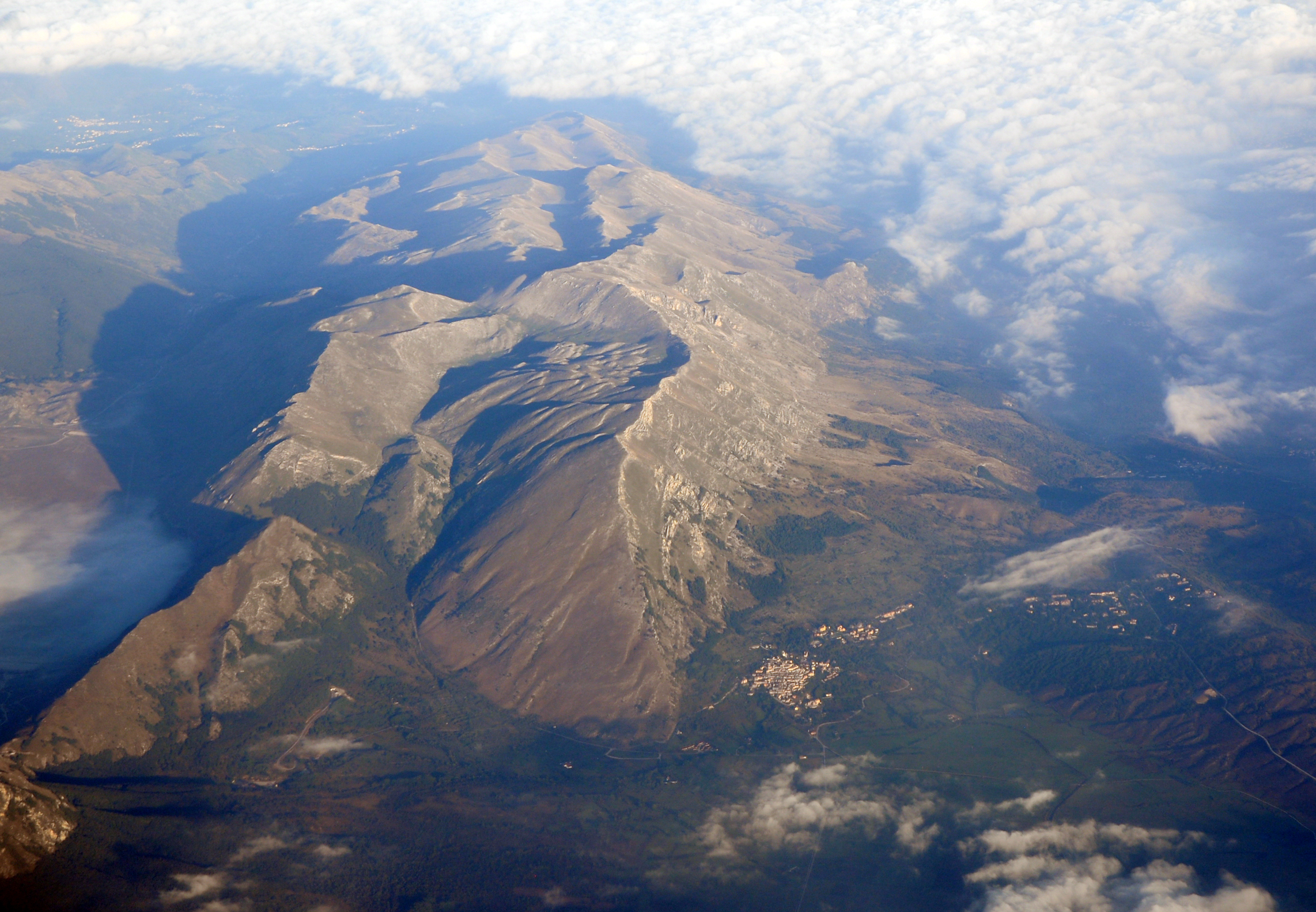 The Mountainous group Monte Ocre-Monte Cagno seen from an airplane. It is an internal mountain ridge, part of Sirente-Velino chain in the Central Apennines range of Abruzzo region in Italy.